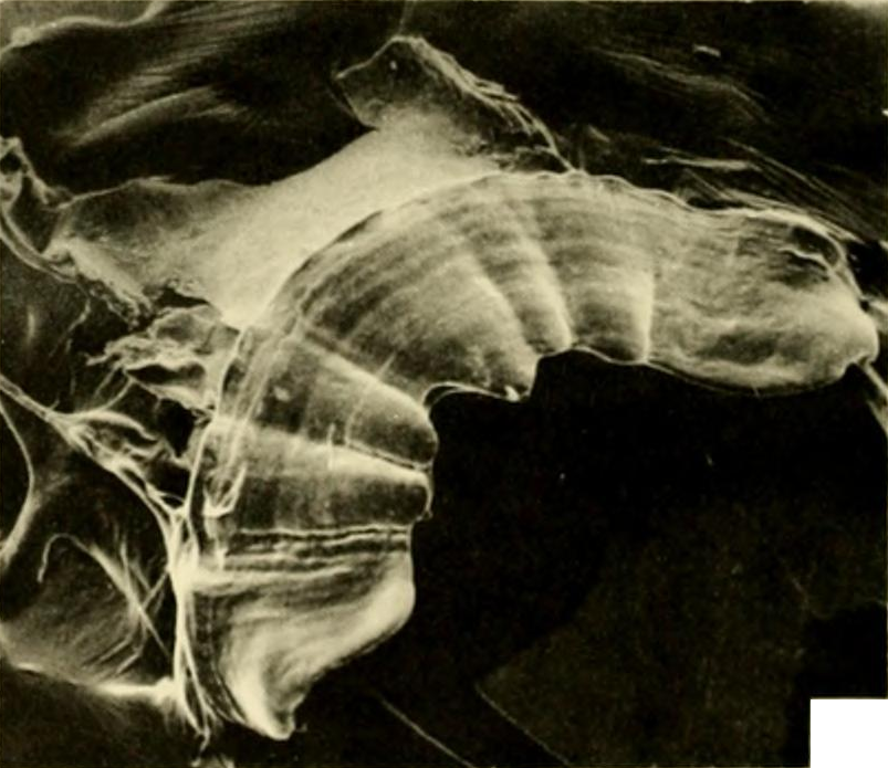 SEM black and white photo of a jaw of Novisuccinea chittenangoensis. FMNH 175425. Maganification 38.2×.